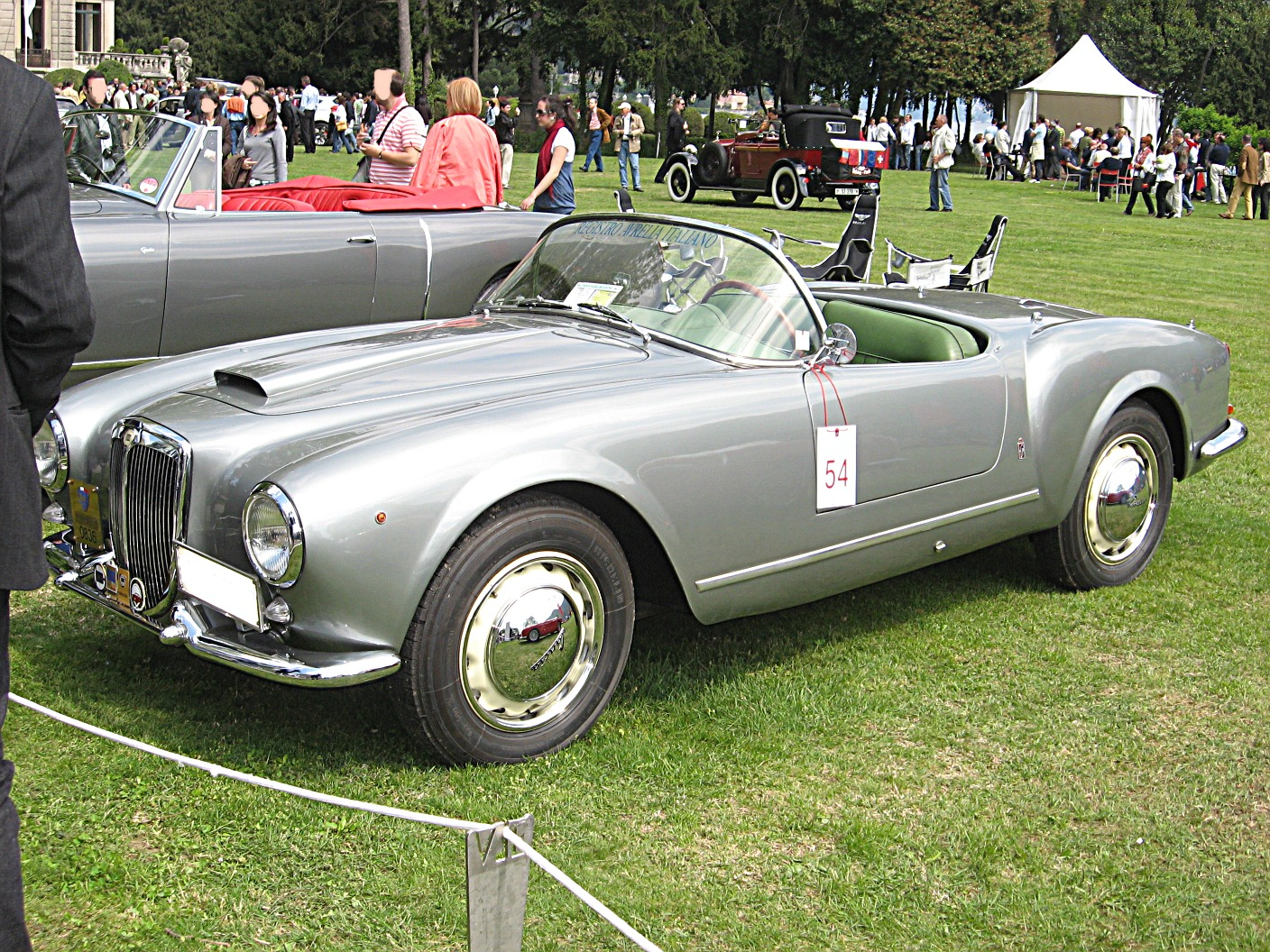 Subject:Lancia Aurelia B24 Spider Date:April 27th, 2008 Event:Concorso d’Eleganza”Villa d’Este” 2008 Place/Country: Cernobbio (CO), Italy I release all rights in the public domain.